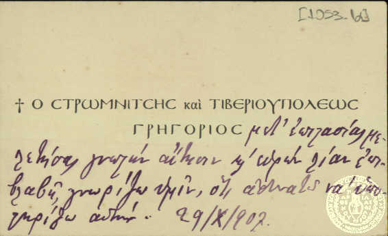 Grigorios_Orologas_Letter_to_Ion_Dragoumis